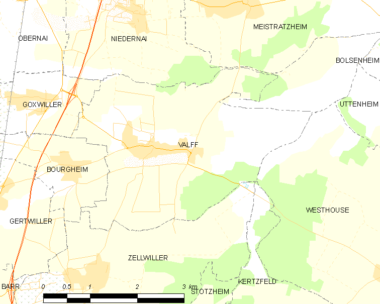 Map of French municipality